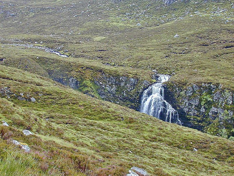 The Eas Fionn Looking at the upper part of the aptly named "White Waterfall" as it drops into the ravine of the River Lael.